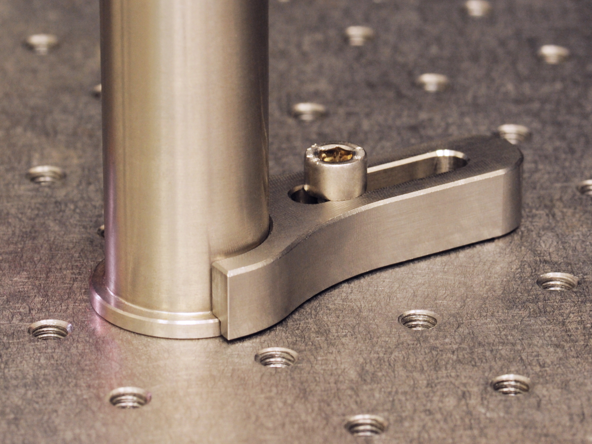 Photograph of a clamp holding a 1-inch post on an optical table.